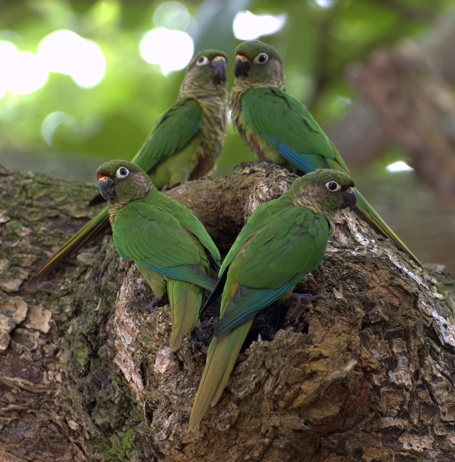 Pyrrhura frontalis Ilhabela-SP